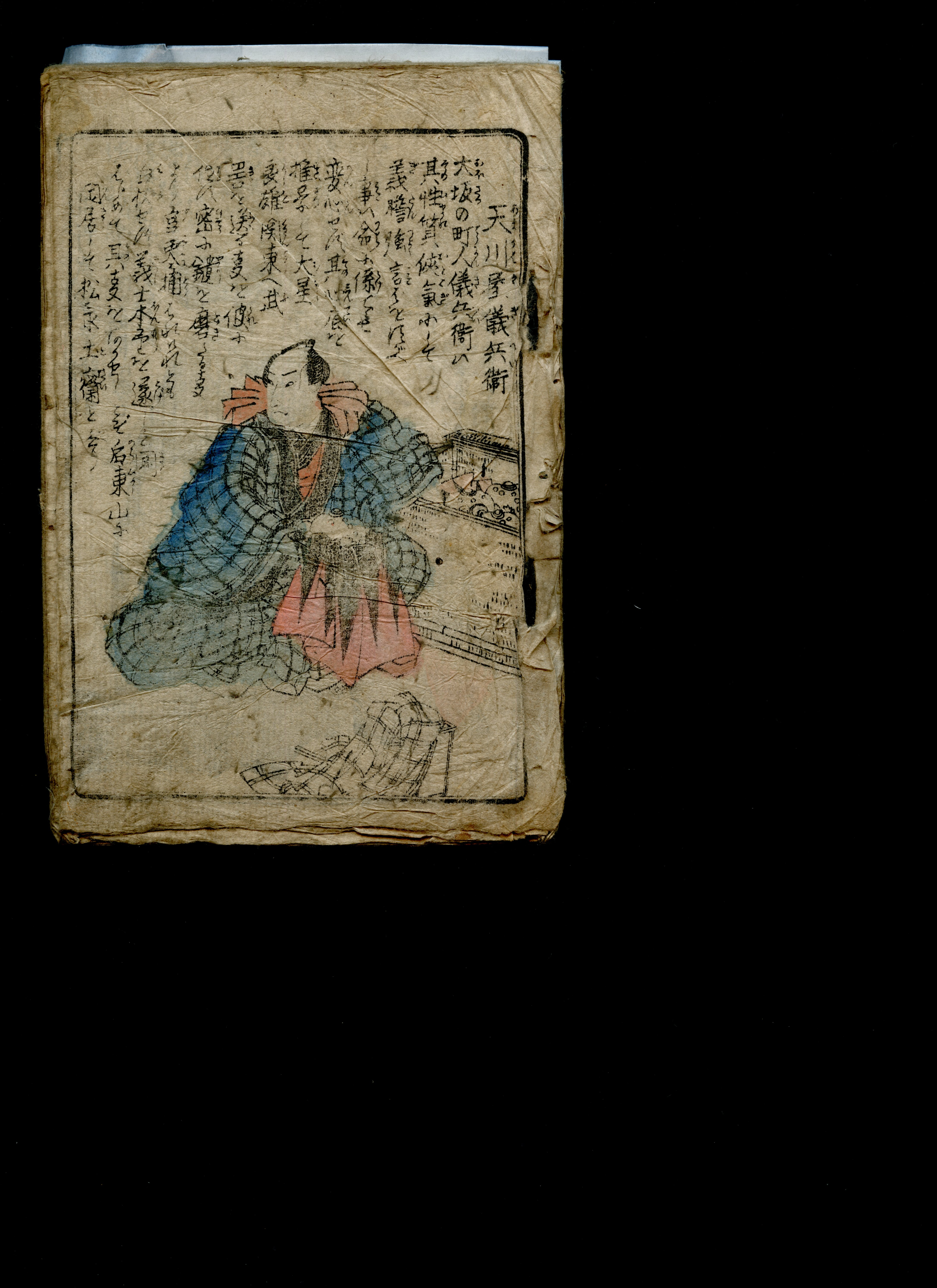 E-hon dipicting the characters from the Chushingura (fictional interpretation of the non-fictional tale of the 47 ronin, involving the use of pseudonyms & theatrical plot conventions, etc.). Title not identified, author not identified, illustrated by Utagawa Kuniyoshi, late Edo period (circa 1850's). Scanset of 1 volume (unknown if book is part of a series, or a single volume publication). Right-to-left page 01/52, leaf 01/26; single page, front cover Condition: both covers missing, 52 pages/26 leaves; unclear if any internal pages are missing, if so: more likely from front than back (fragments of rear cover remain in the binding, no traces of front cover are visible; existing pages appear to be contiguous. Pages are worn, stained, partially hand-coloured by a previous owner (colouring is not a part of the original, intended design, & does not follow standard conventions for costume colours of the characters).